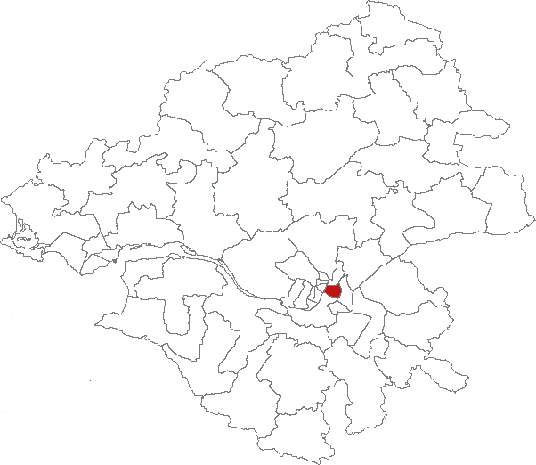 Map of canton of France : Canton de Nantes-2, Loire-Atlantique, France